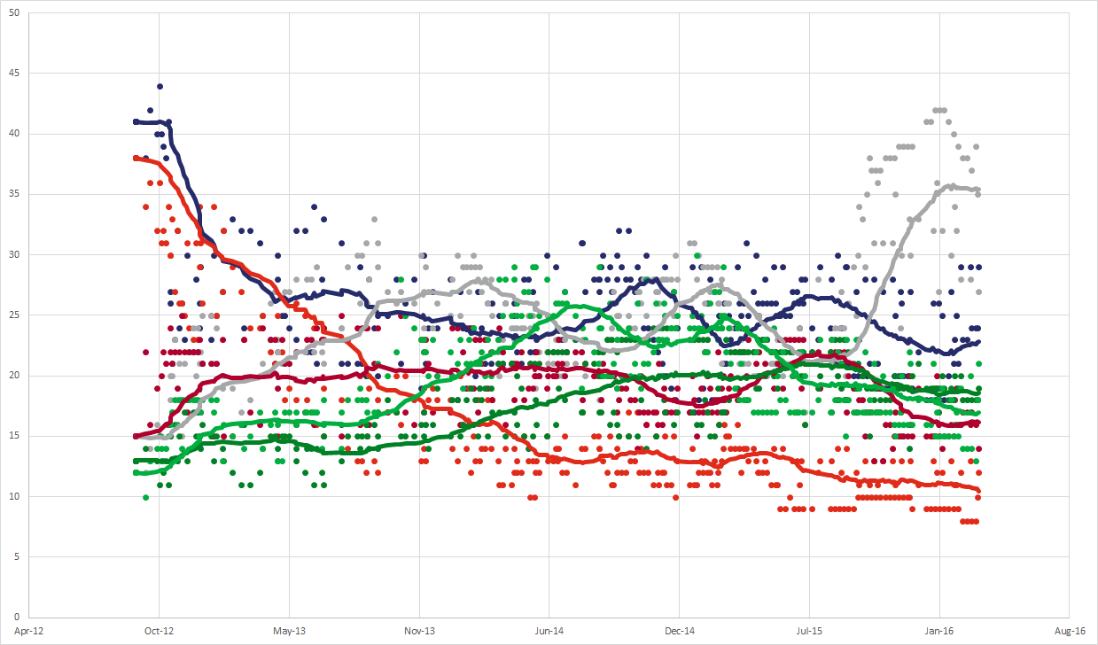 Evolution of voting estimations in Dutch opinion polling since the 12 September 2012 general election and during the run up to the next general election, scheduled for 15 March 2017 at latest. Points represent results of individual polls. Trend lines represent exponentially weighted moving averages.